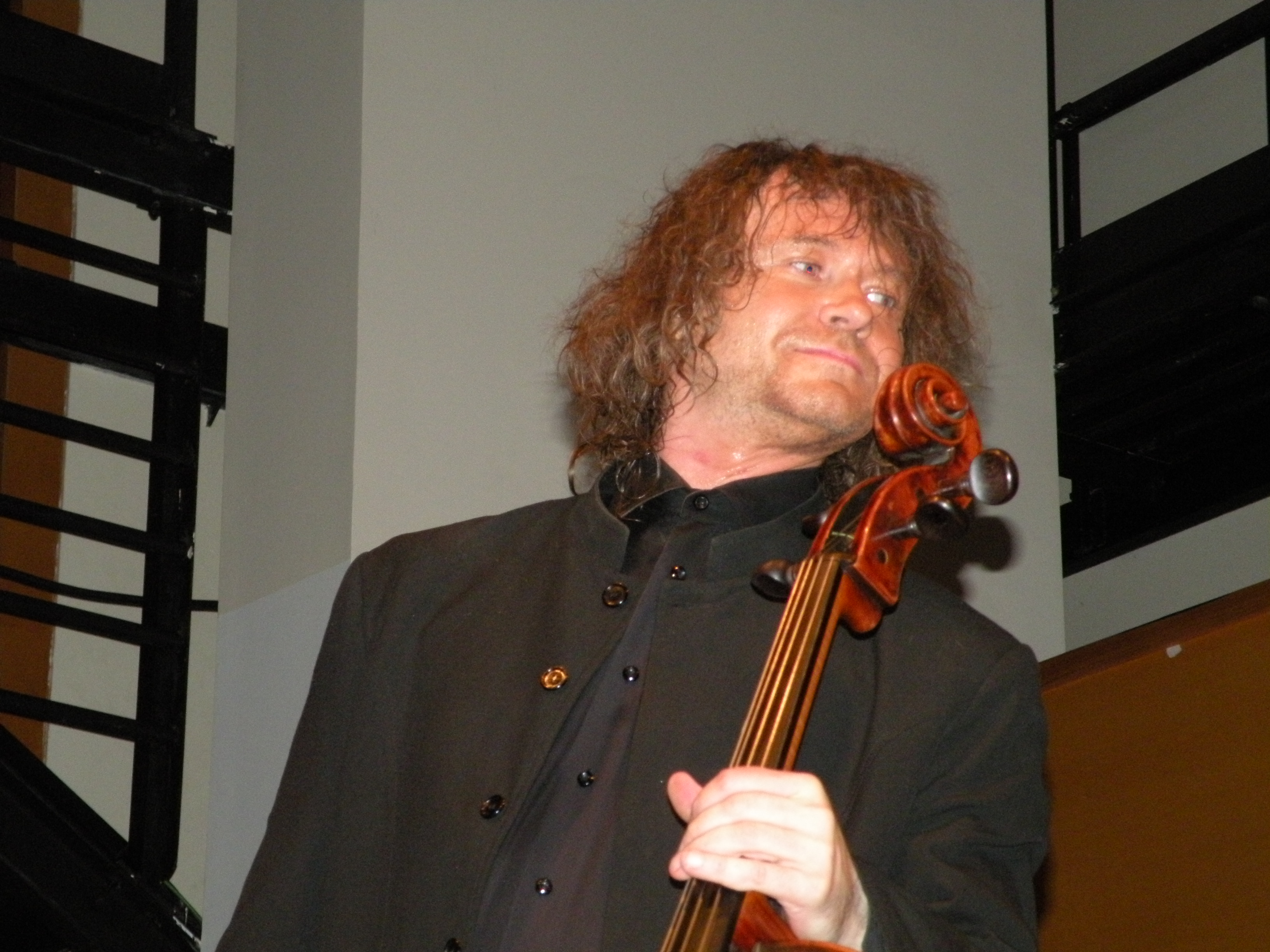 Alexander Kniazev, russian cellist, on 29 January 2009, during La Folle Journée in Nantes.